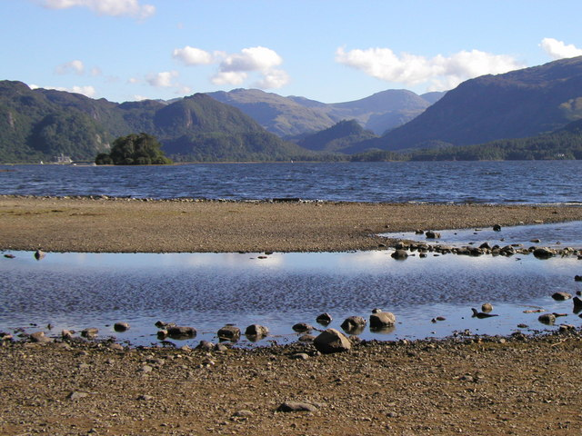 Derwentwater from east of Friar's Crag. The water in the lake is depleted in this picture by several feet due to the drought of July 2006. This shingle would not normally be visible.